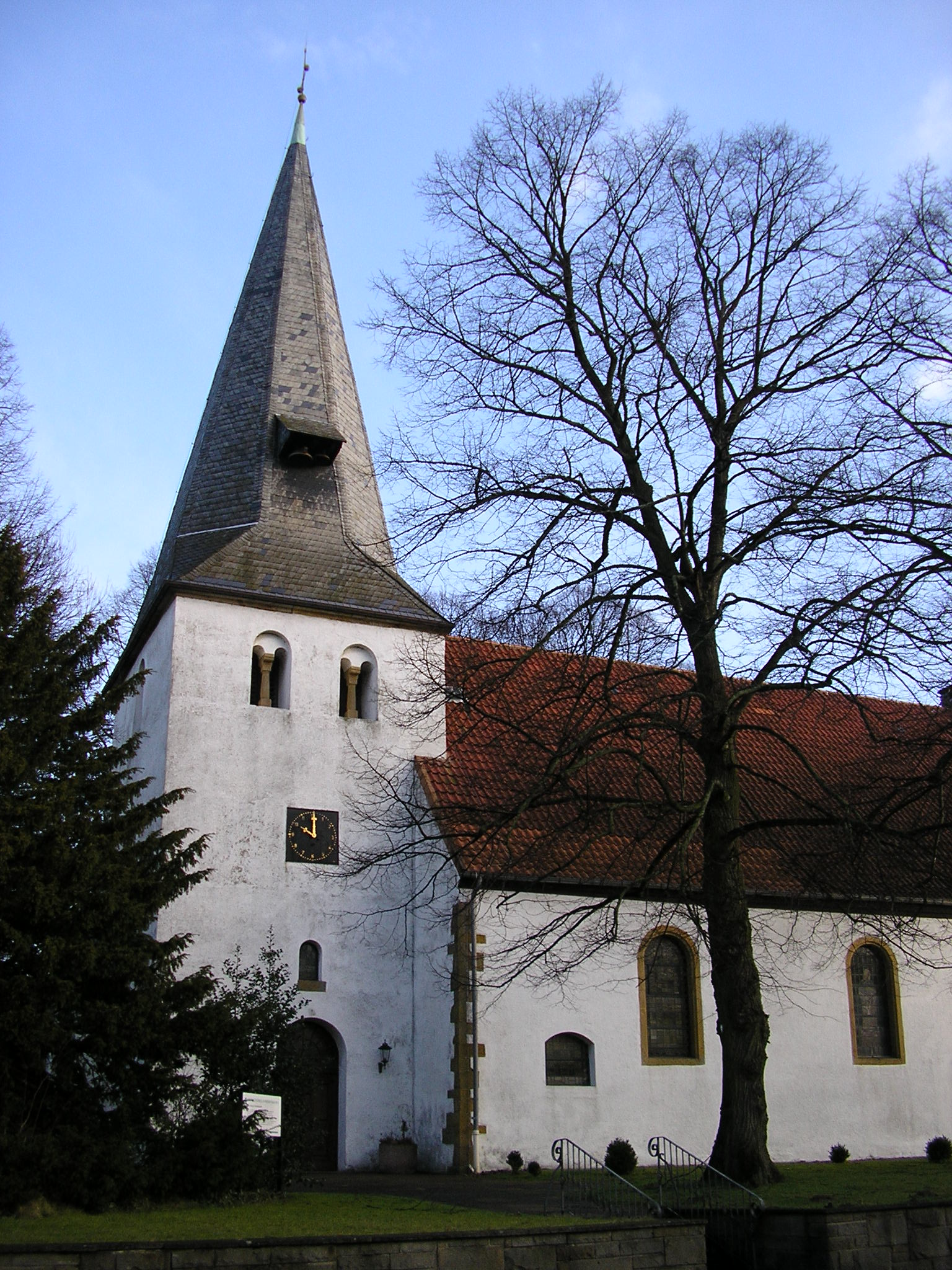 Church St. Gangolf church in town of Hiddenhausen, District of Herford, North Rhine-Westphalia, Germany. This is a photograph of an architectural monument.